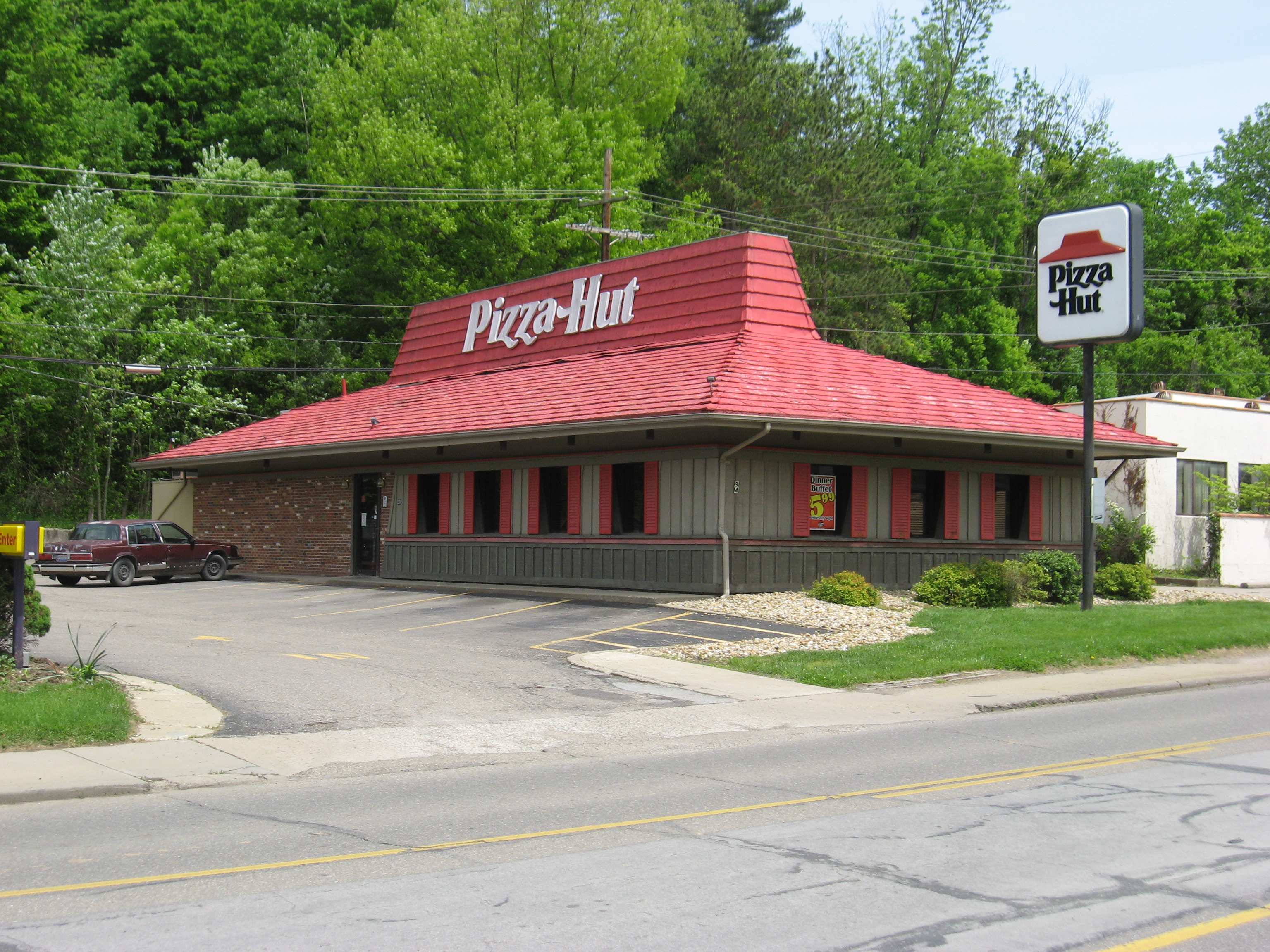 Pizza Hut restaurant in Athens, Ohio, United States.